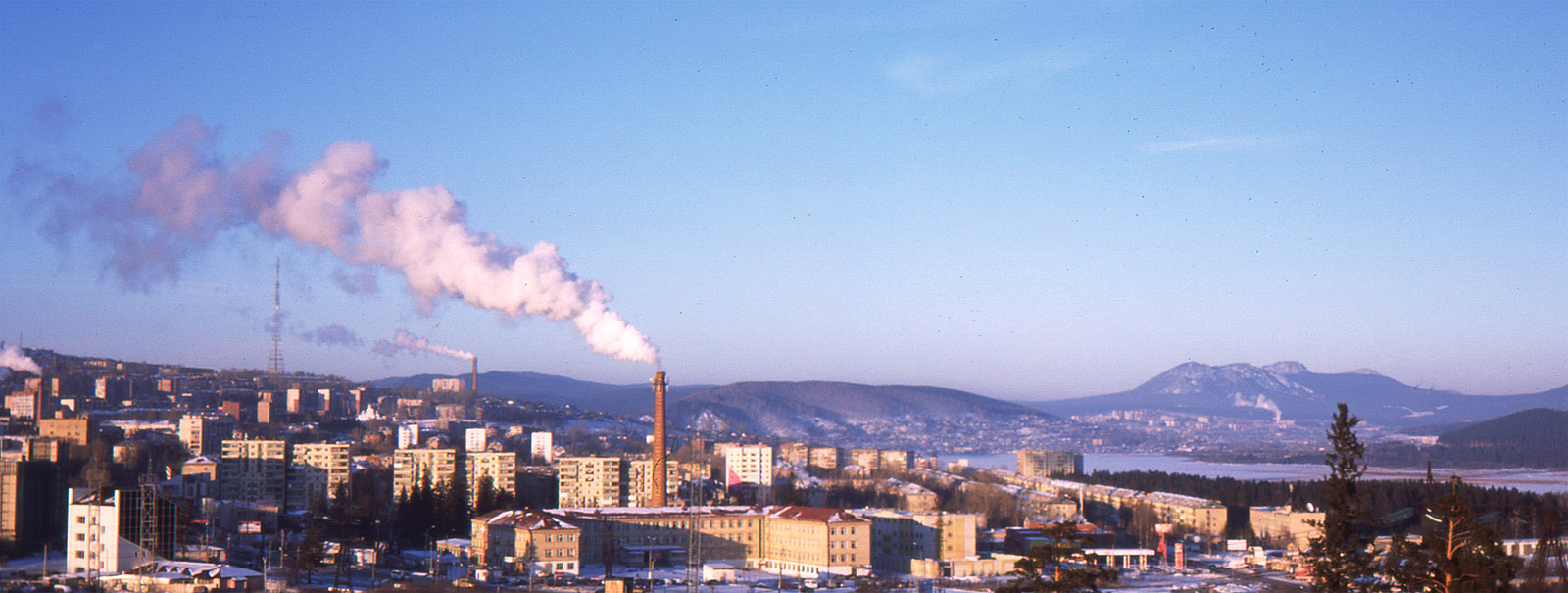 Panorama of Zlatoust city as seen in Januray 2011